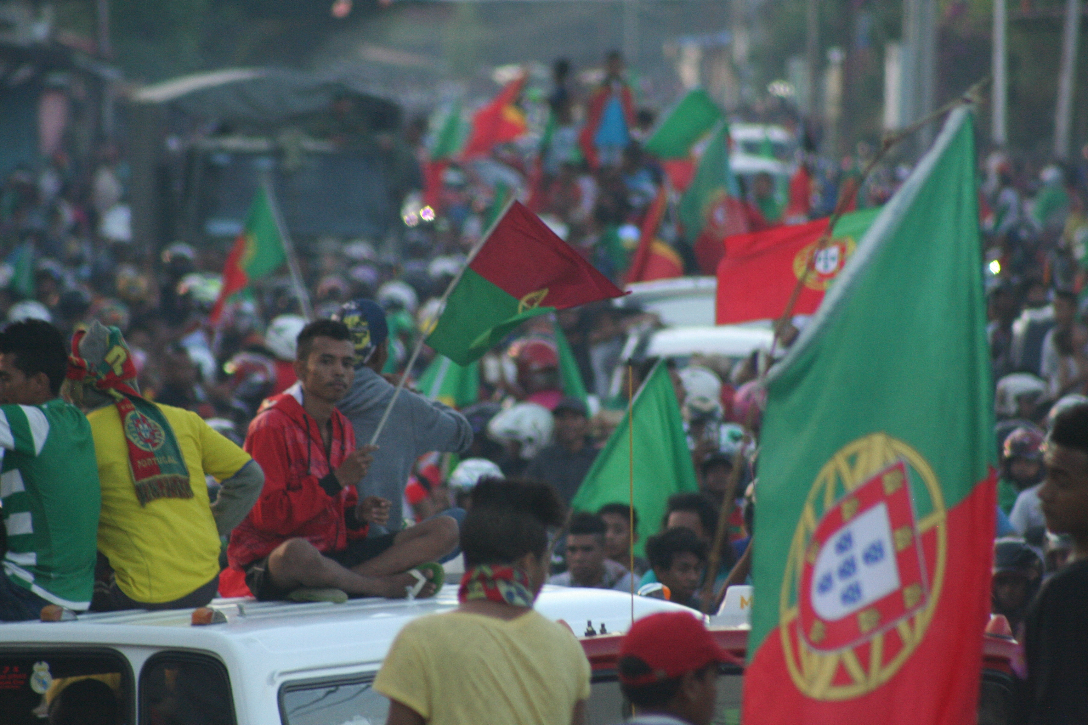 Cheering in Dili (quarter of Rahun)/East Timor after Portugal won the UEFA Euro 2016